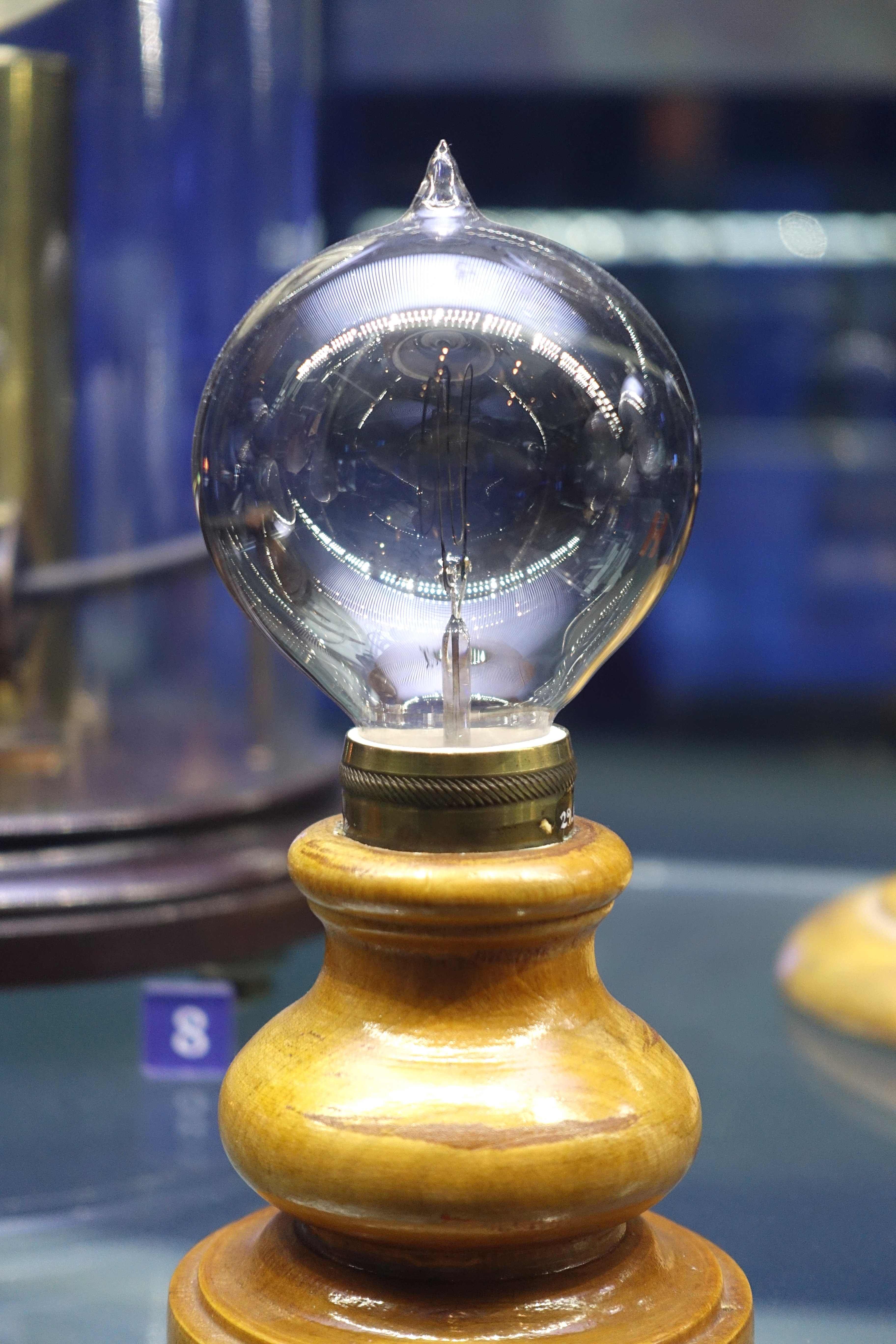 Exhibit in the Museum of Science and Industry, Chicago, Illinois, USA.